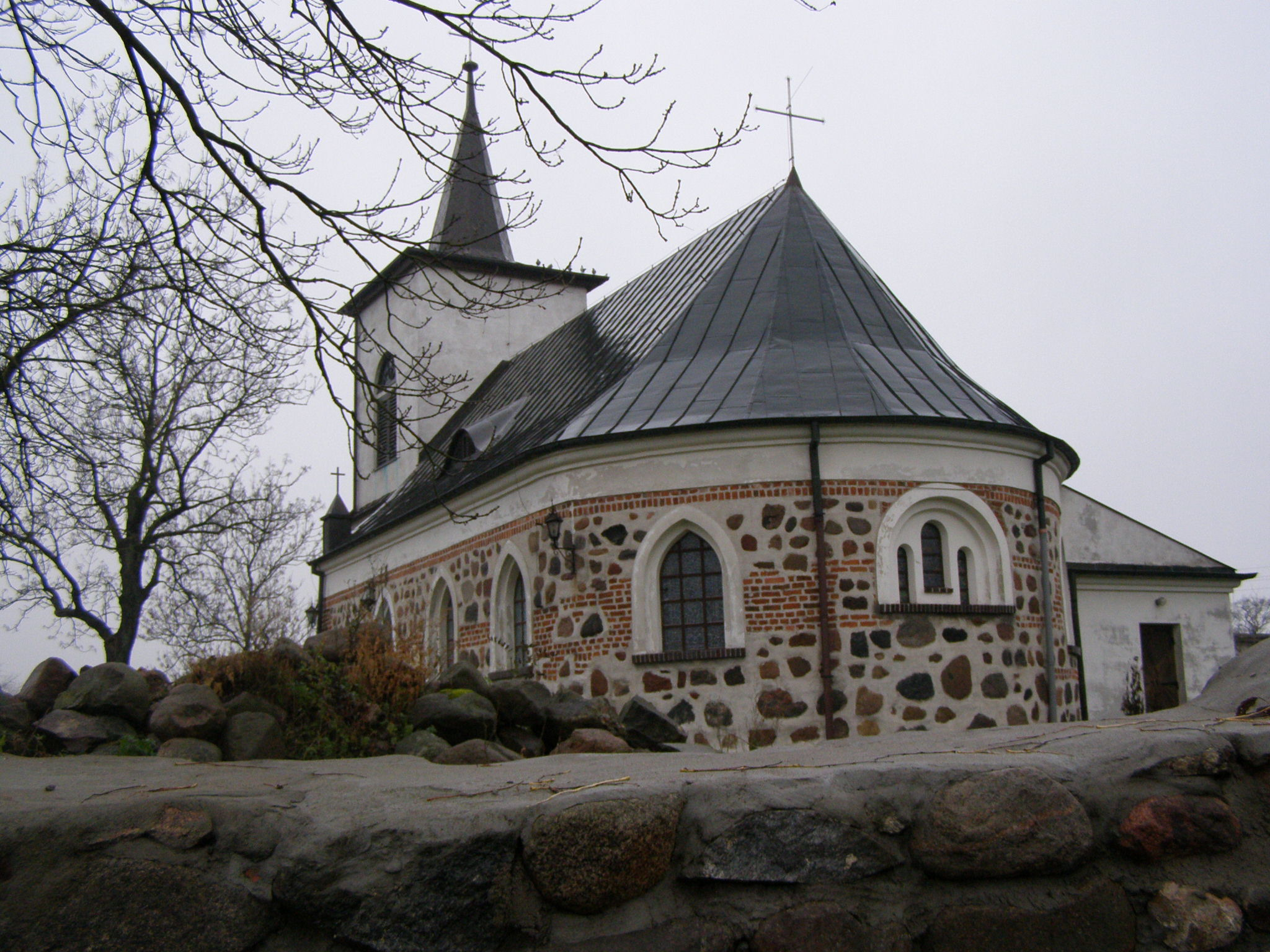 Stobno, Police County